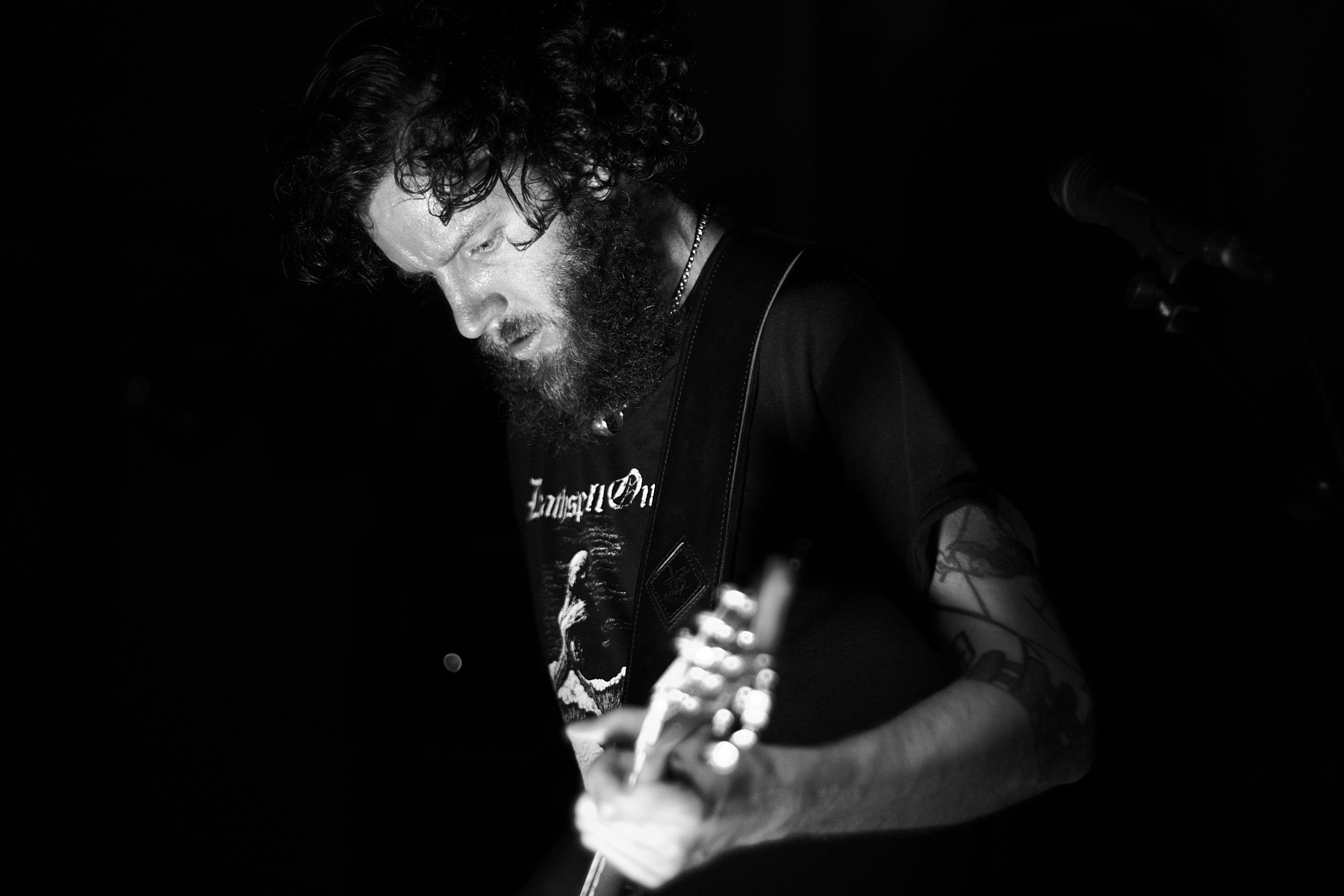 View in my concert gallery.